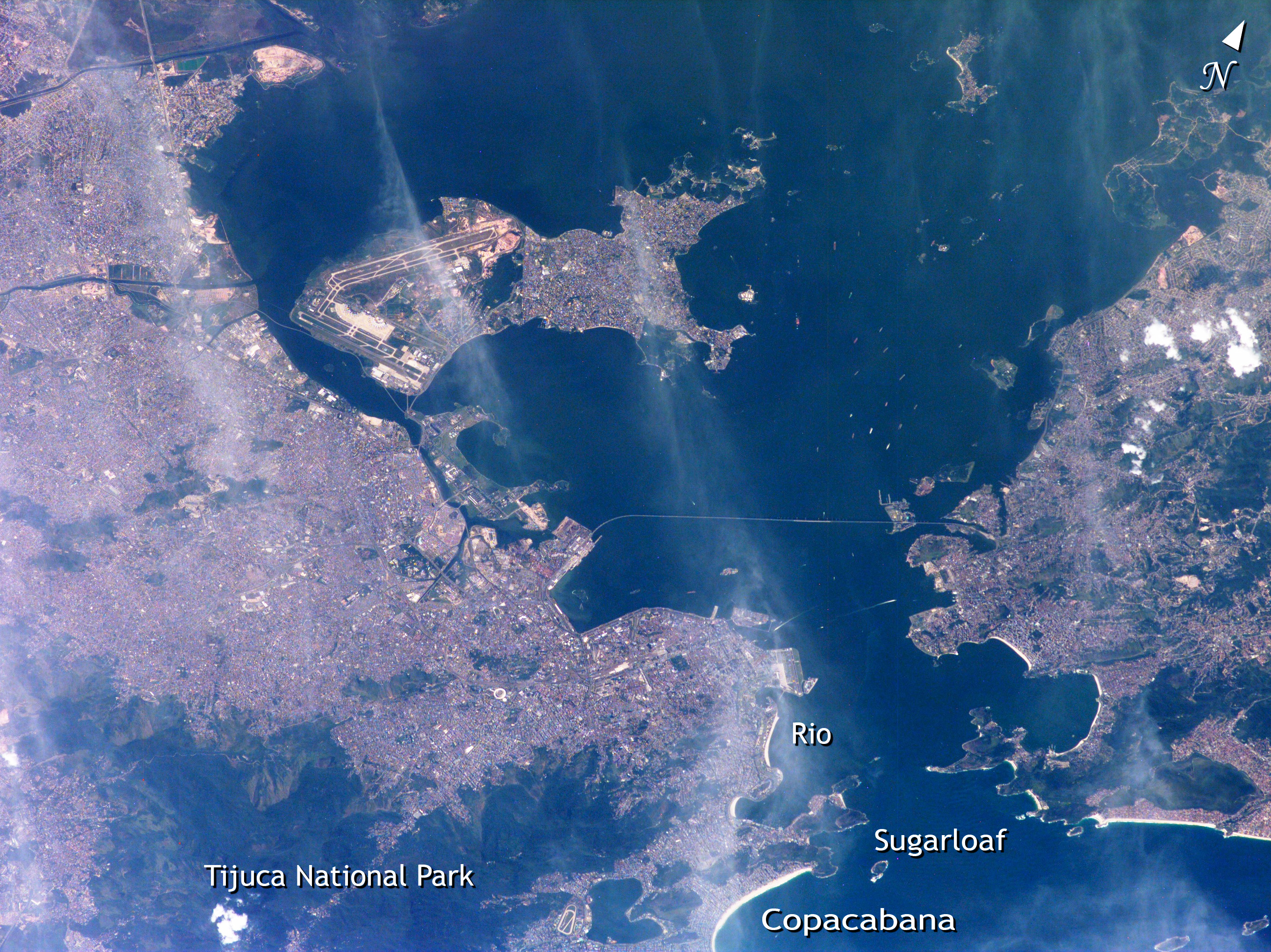 A dengue fever outbreak has plagued Rio de Janeiro since January 2002. Dengue fever is a mosquito-borne disease. The elimination of standing water, which is a breeding ground for the mosquitoes, is a primary defense against mosquito-borne diseases like dengue. Removing such water remains a difficult problem in many urban regions. The International Space Station astronauts took this image of Rio de Janeiro in December 2000.